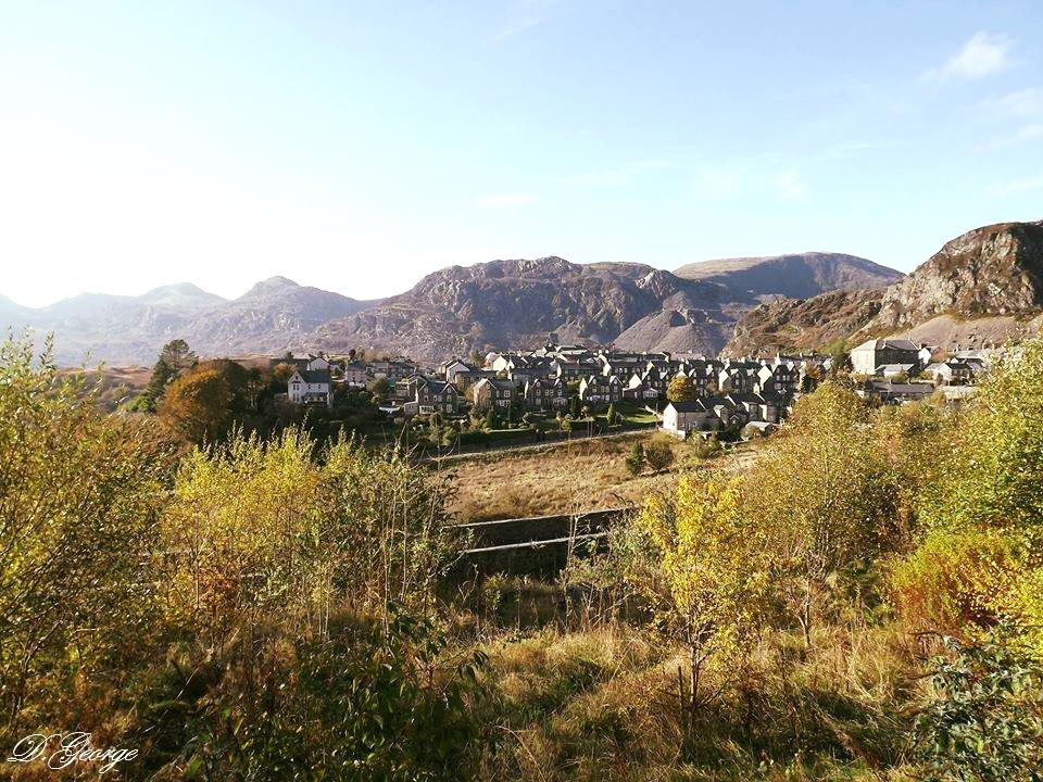 Showing the town of Blaenau Ffestiniog against the sunny and hilly background in the Autumn